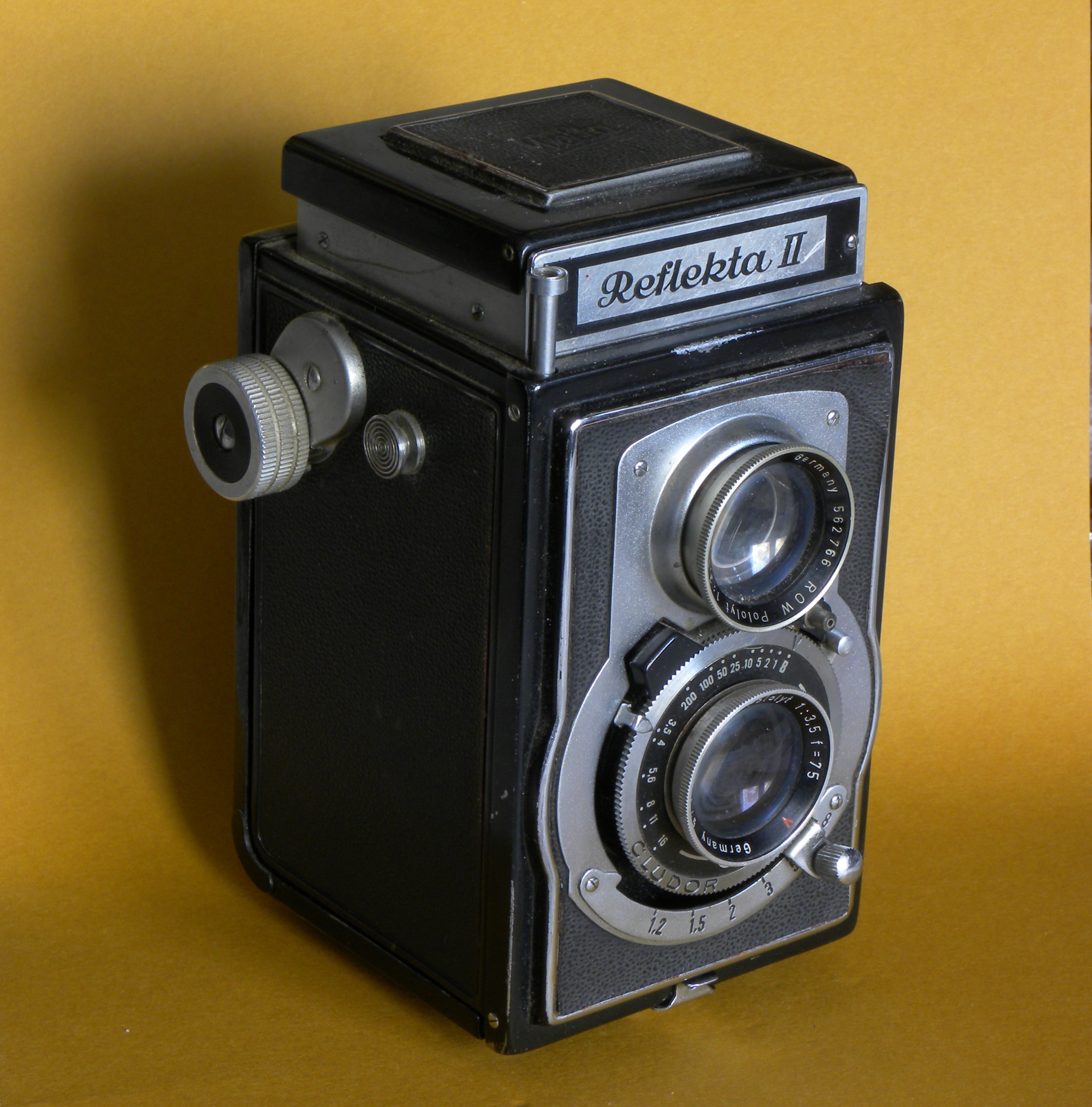 Welta Reflekta II camera